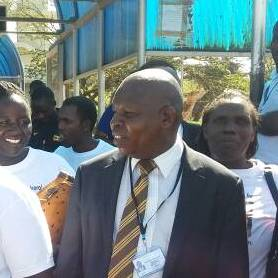 Mangusho in 2017 Template:Subst;OP